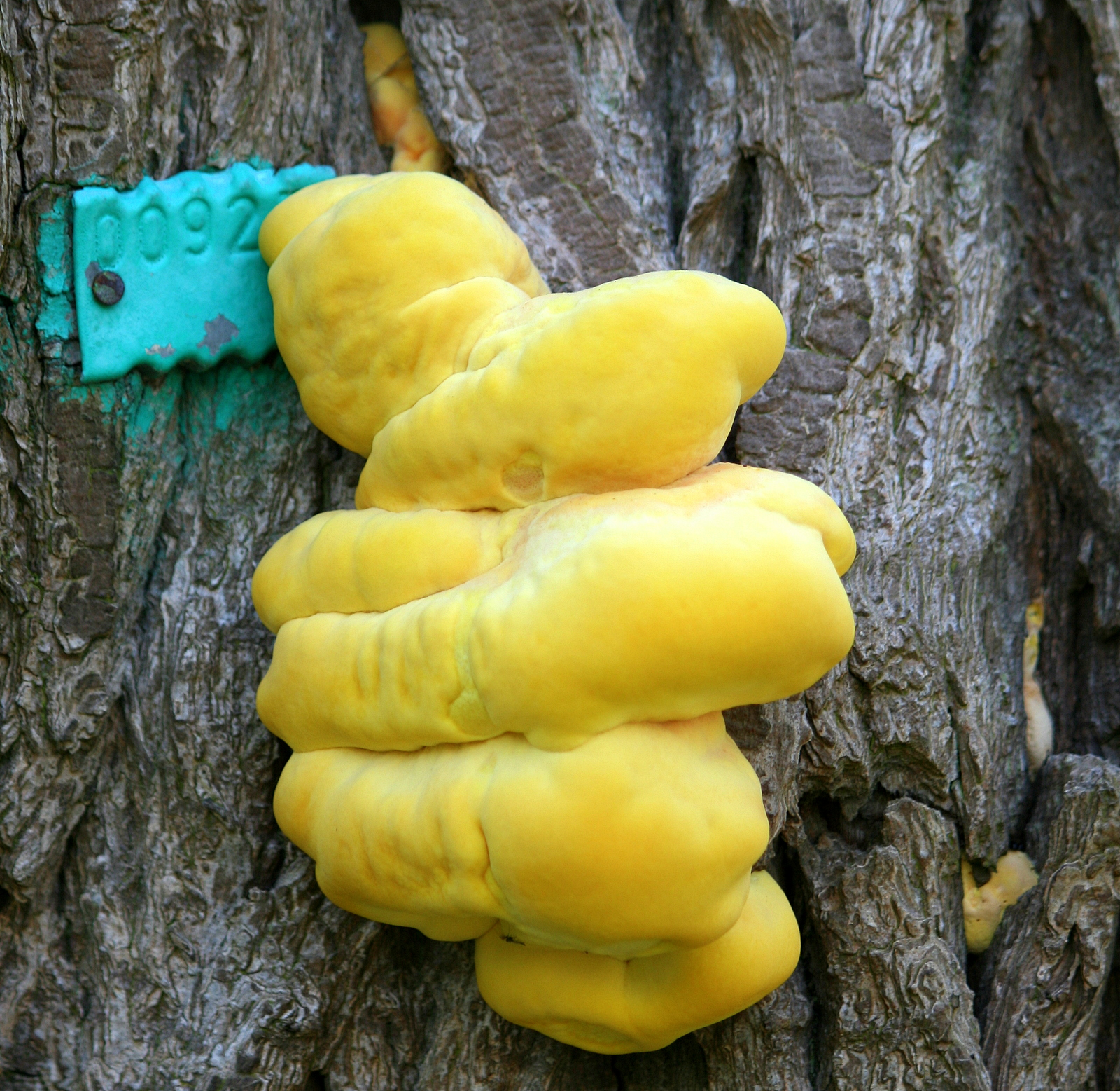 Young Laetiporus sulphureus growing on tree